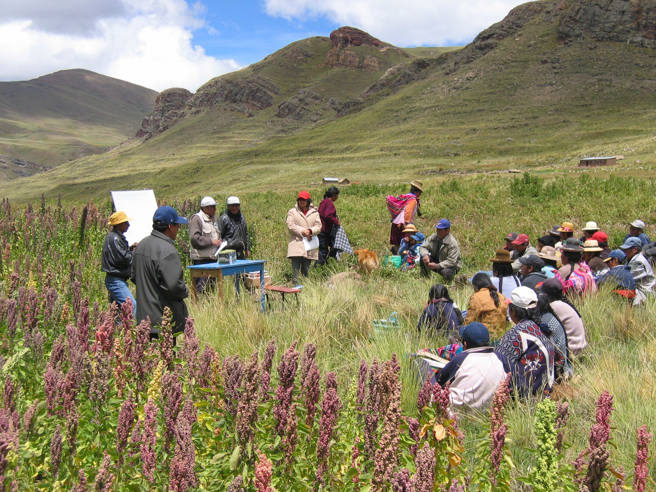 Farmer field school dealing with crop husbandry and quality production of quinoa (Chenopodium quinoa), a native grain of the Andes. Location: near Puno, Peru.